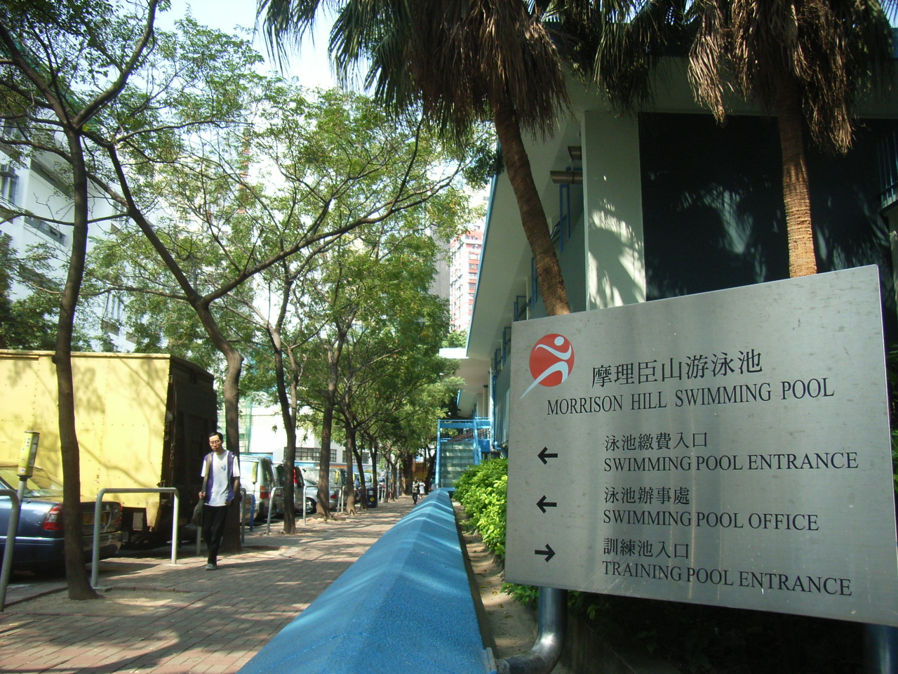 Around the Oi Kwan Road, Wan Chai, Hong Kong Author:Wenzi MHTI